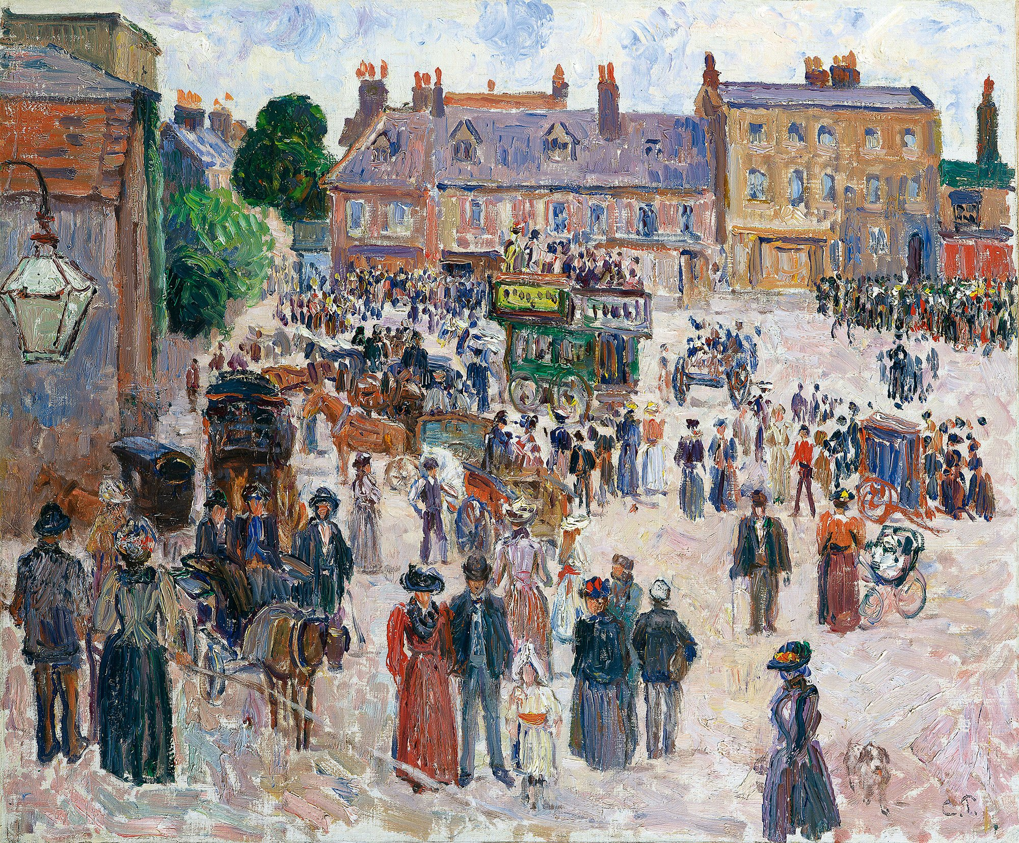 Bank Holiday, Kew by Camille Pissarro, 1892, oil on canvas, 46 x 55 cm.